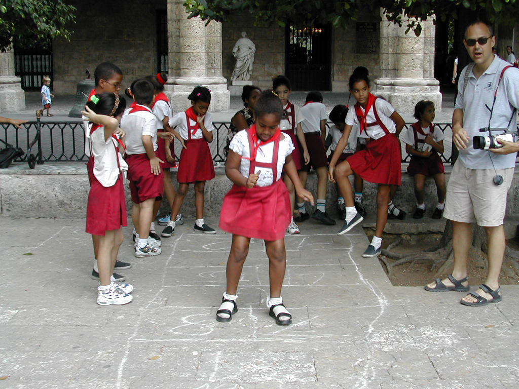 Havana, Cuba School girls playing Hopscotch in Old Havana on an afternoon in May 2002. Flickr Explore: 27 January 2007, #309 (highest)